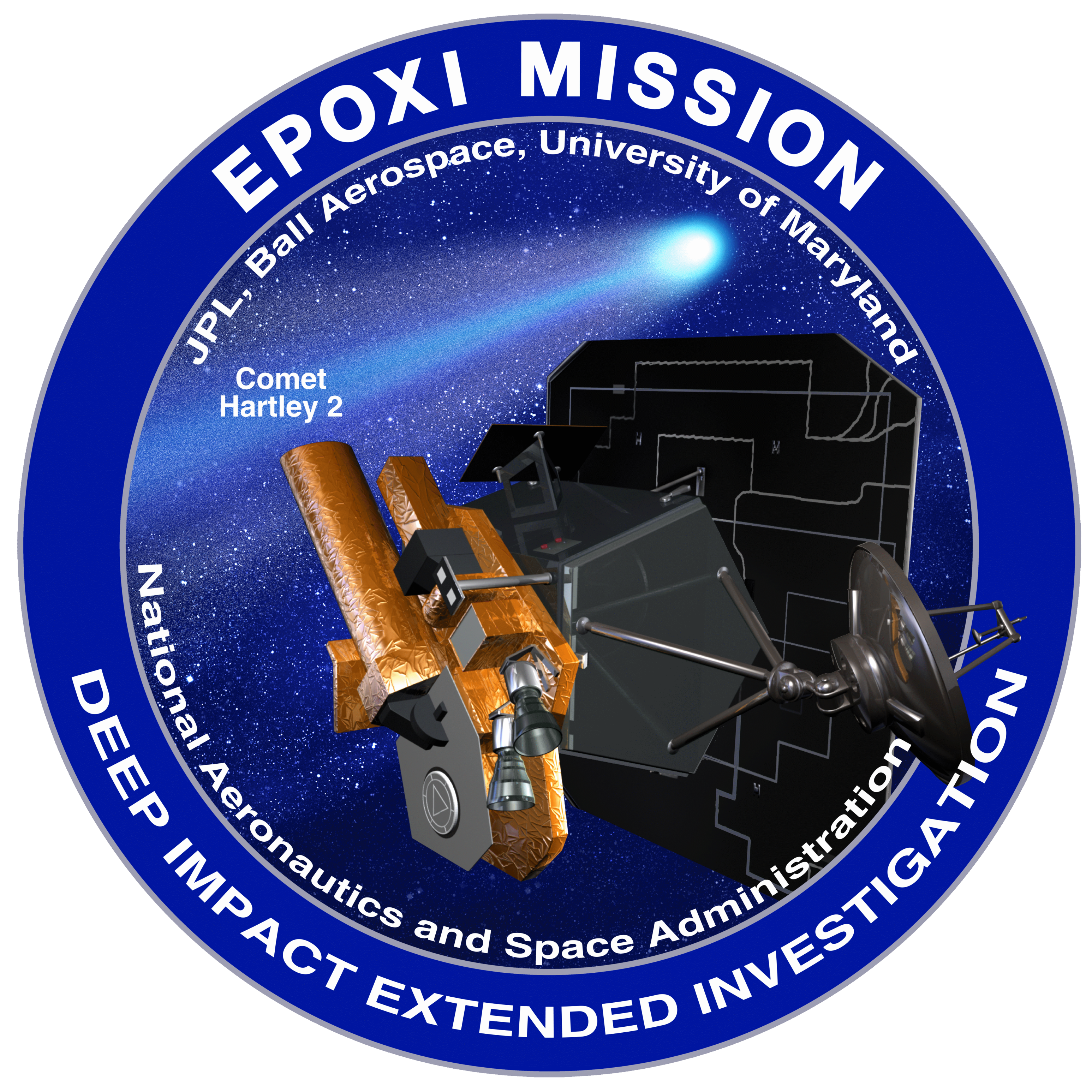 EPOXI mission patch.